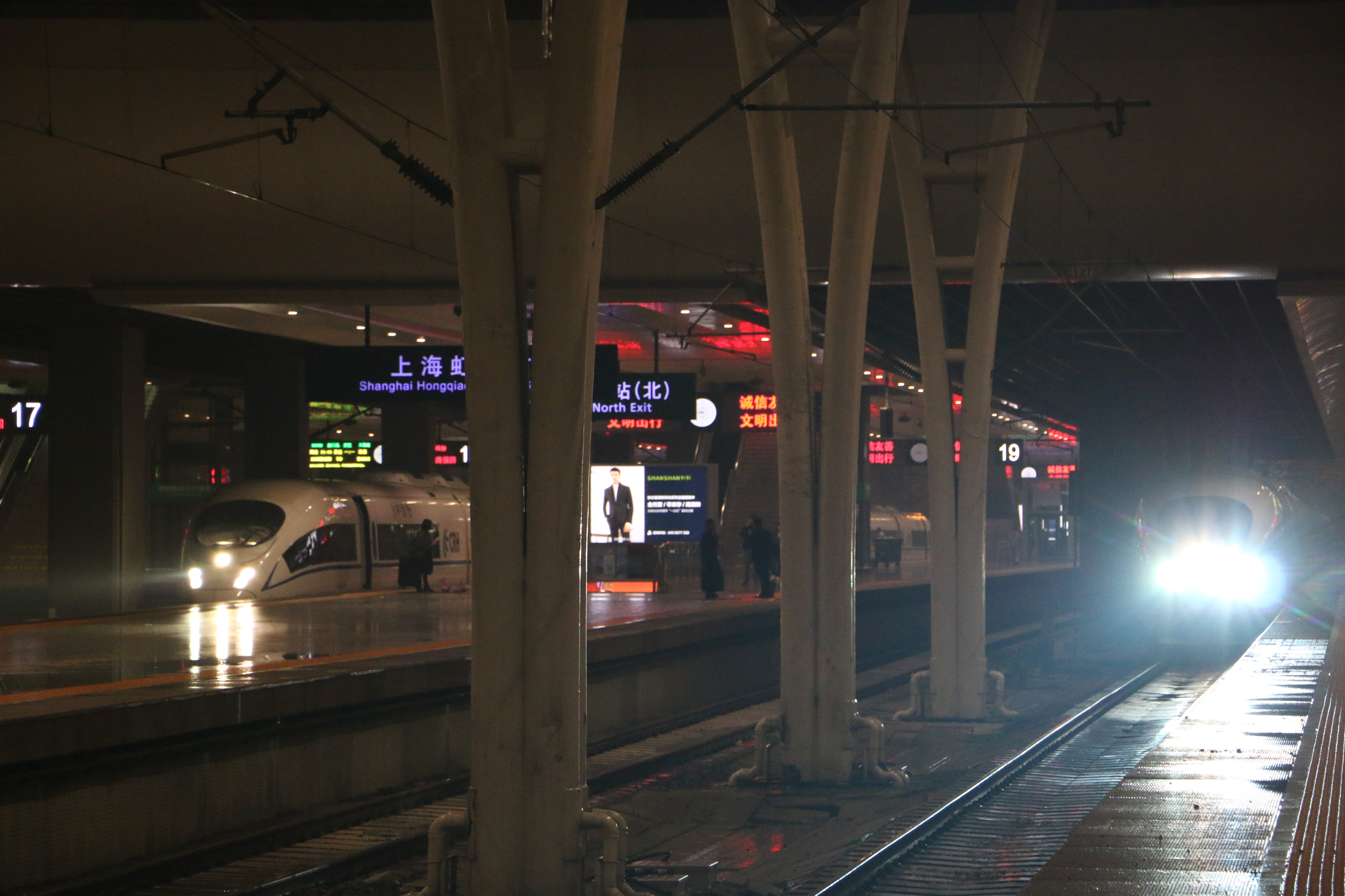 201604 Comparison of Headlights of Two kinds of CRH380B, old version in the left, right one is recently produced